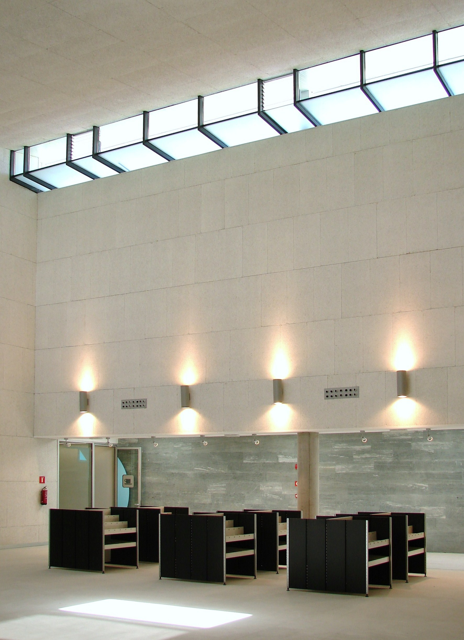 Biblioteca Municipal - Public Library - Lope de Vega (Tres Cantos) -Madrid